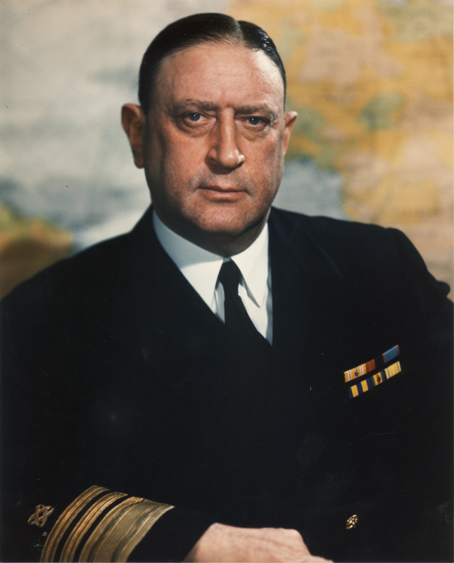 Admiral Ben Moreell, USN